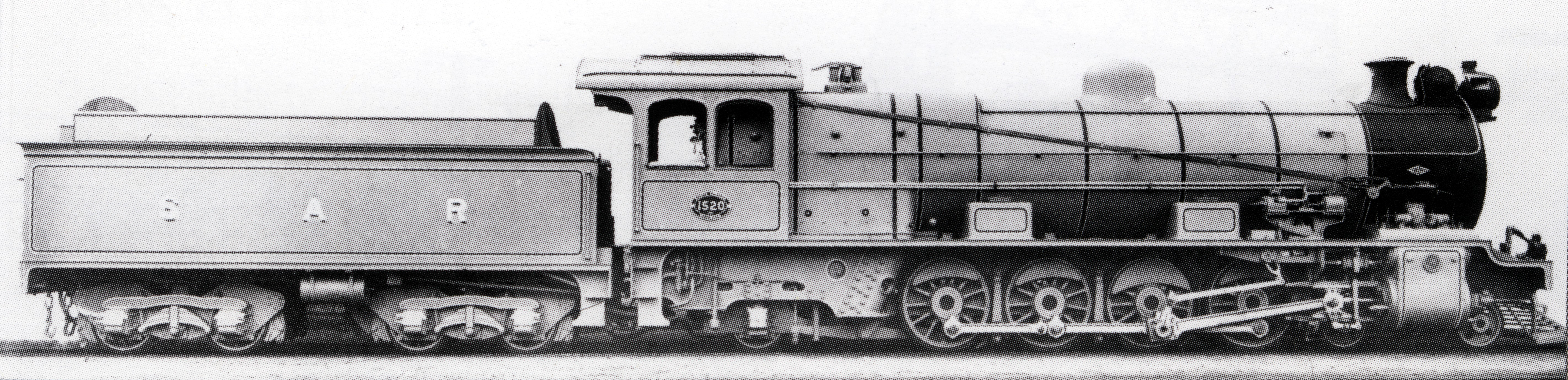 Works picture of South African Railways Class 12A no. 1520, with Type MP1 tender